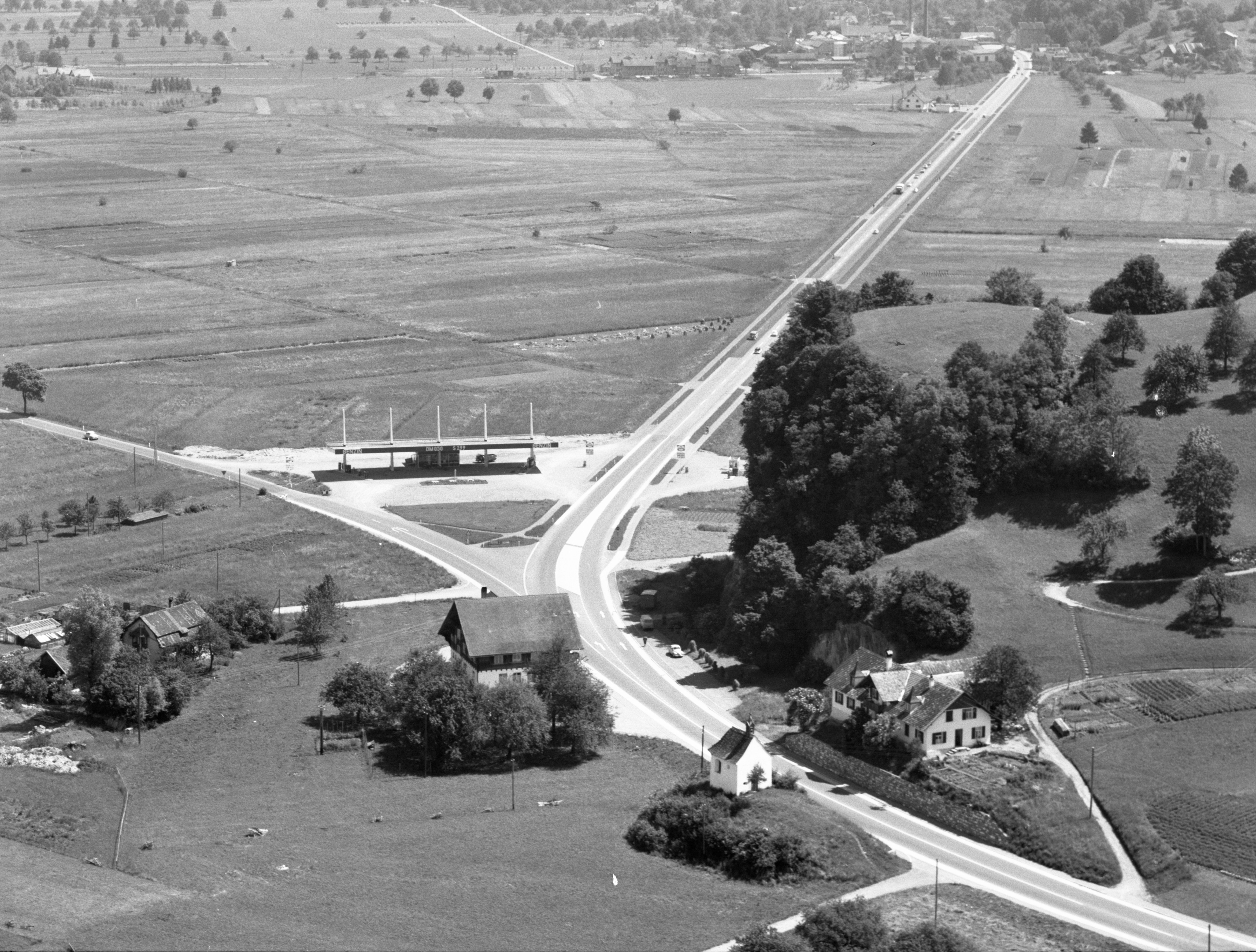 Aerial photograph of the gas station in Kobel and the chapel in Kobel from the year 1959 from the collection of historic oblique aerial photographs of the Vorarlberger Landesbibliothek.